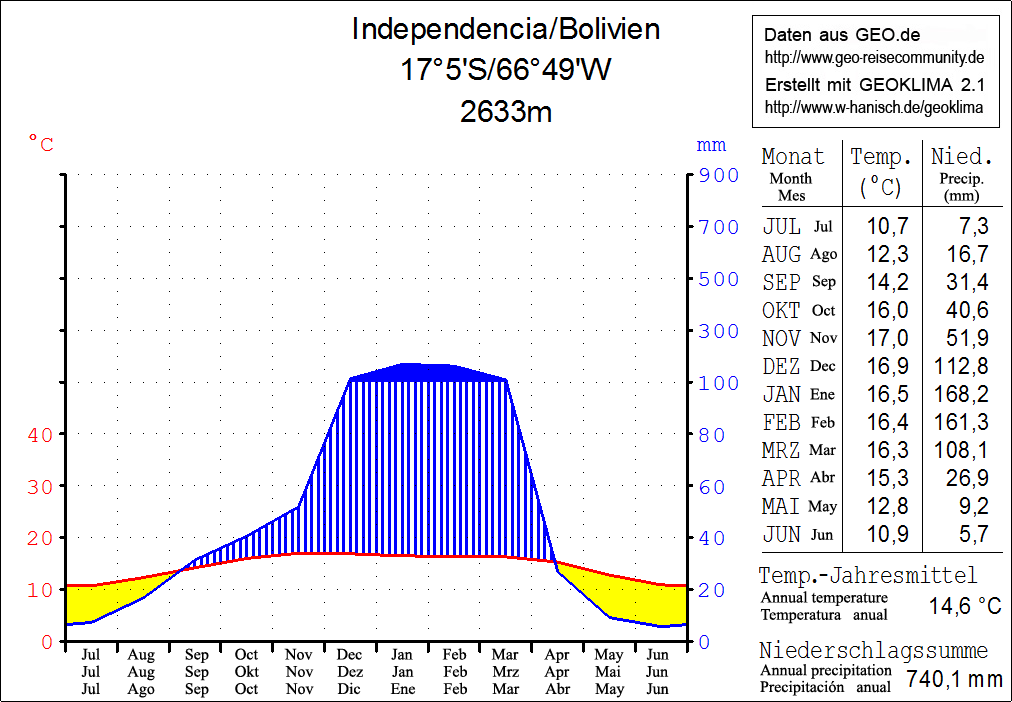 Climate chart in the Walter and Lieth format, metric, °Celsius und millimeters, made with Geoklima 2.1